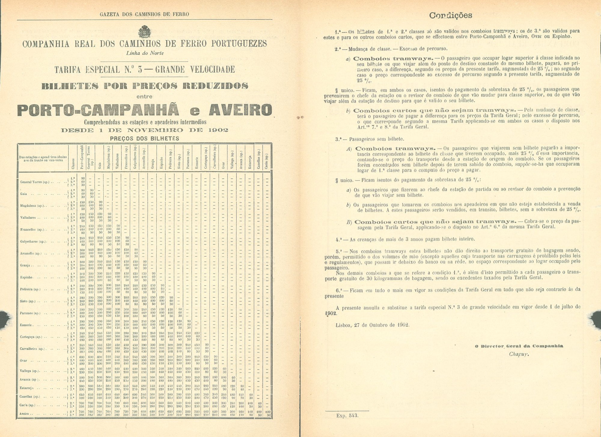 Advertisement of the Companhia Real dos Caminhos de Ferro Portugueses (Royal Company of the Portuguese Railways), showing the special tariff n.º 3, for tickets at reduced prices between the railway stations of Porto - Campanhã and Aveiro. This image was published on the Gazeta dos Caminhos de Ferro magazine no. 357, of the 1st November 1902, and scanned by the Hemeroteca Municipal de Lisboa.